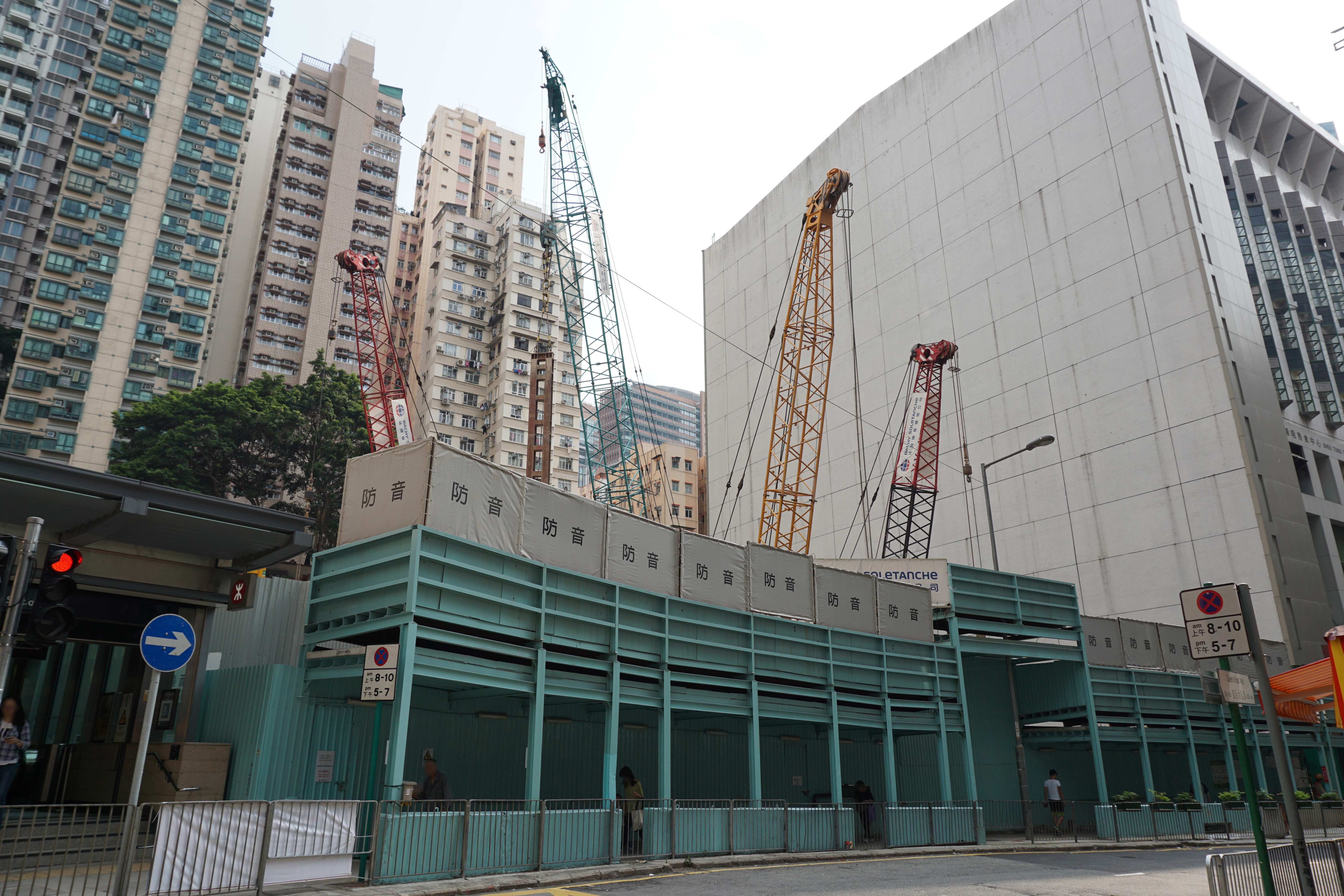 Former Western Court in Shek Tong Tsui, Hong Kong.